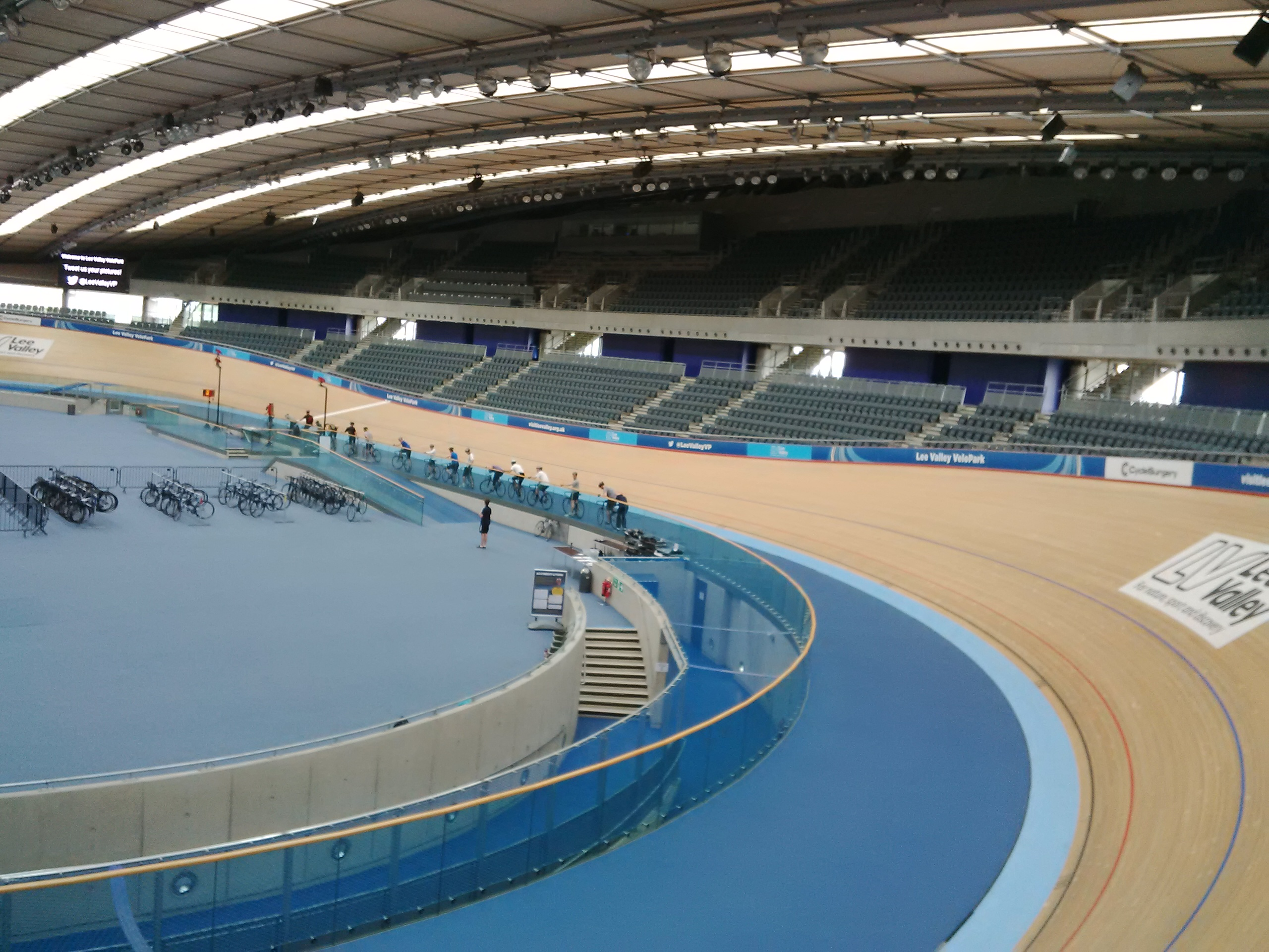 visiting the olympic park and docklands